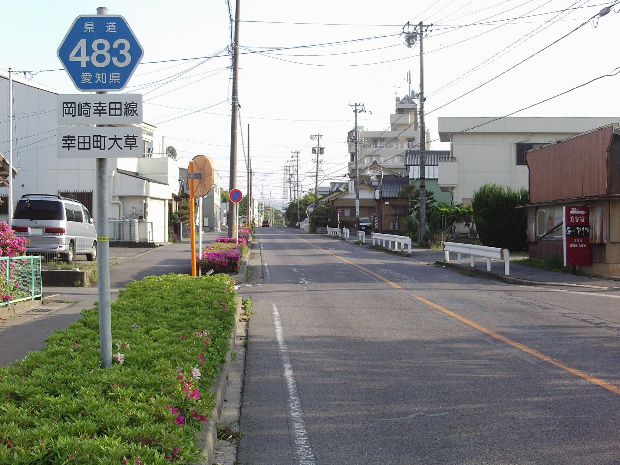 The Aichi Prefectural Road Route 483 in Okusa, Kota Town